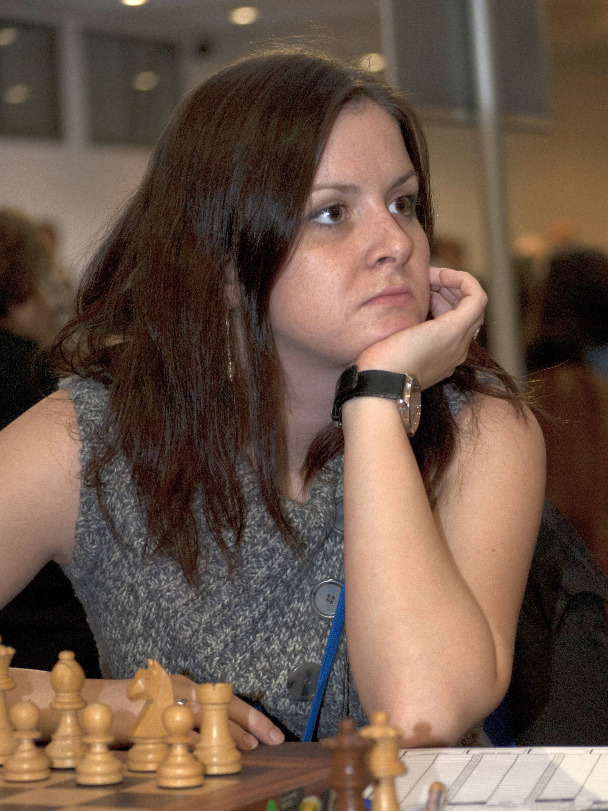 Olsarova Tereza, Porto Carras EchT 2011.